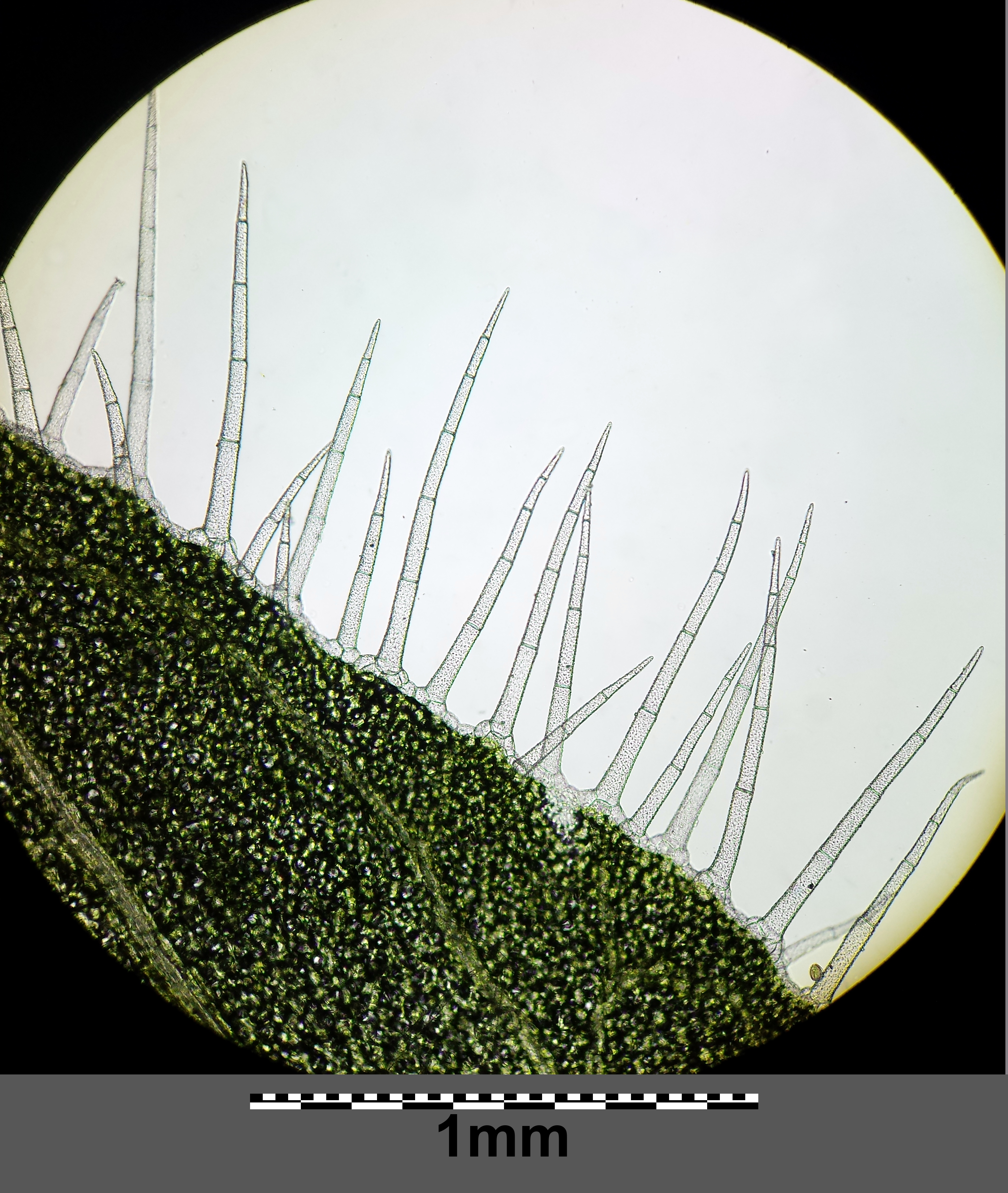 Border of a sepal with hairs Taxonym: Veronica sublobata ss Fischer et al. EfÖLS 2008 ISBN 978-3-85474-187-9 Location: Ferchenbauergasse, Vienna-Floridsdorf - ca. 160 m a.s.l. Habitat: flower bed